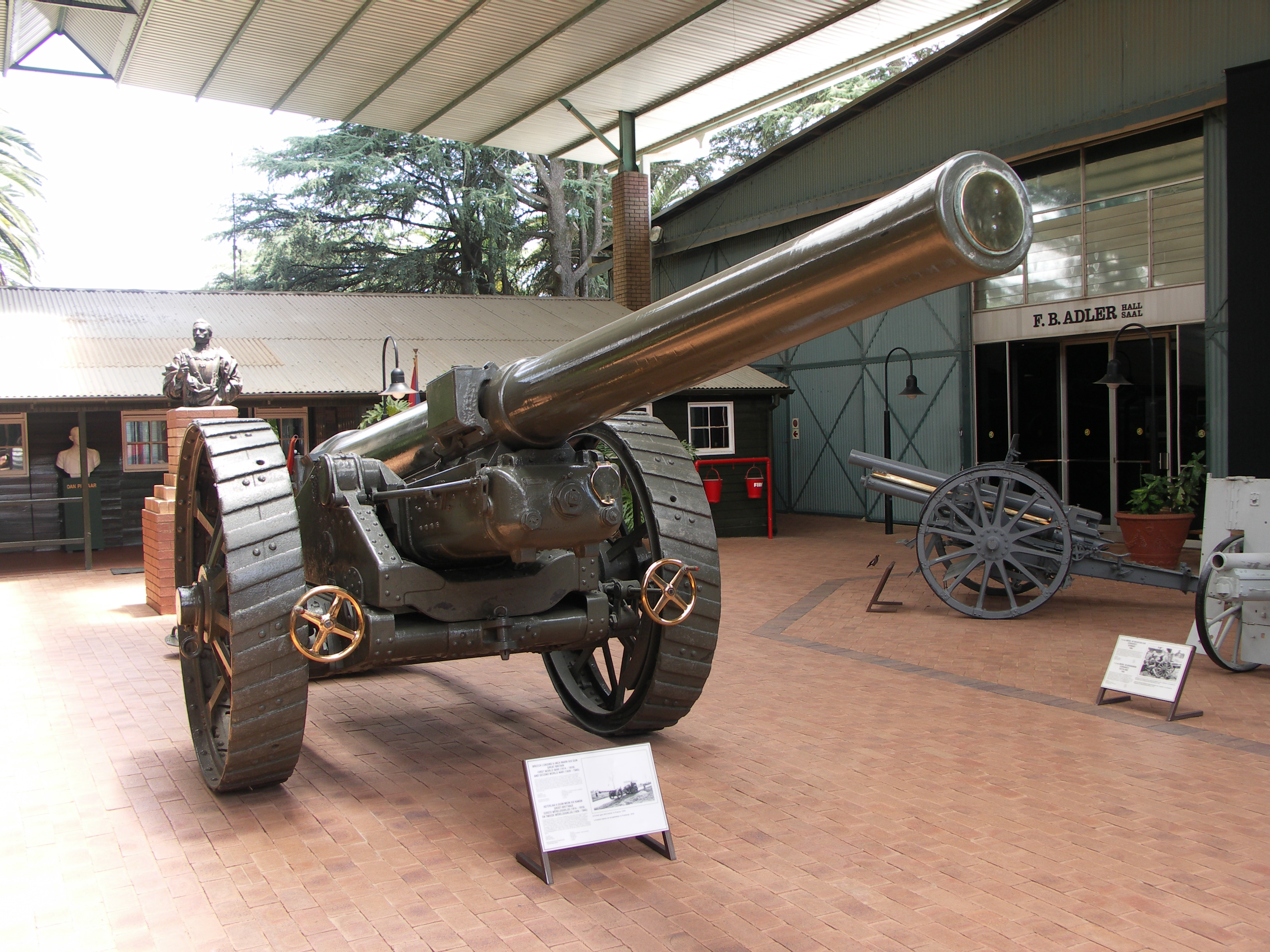 BL 6 inch Gun Mk XIX gun mounted on a Mark XIII traversing carriage